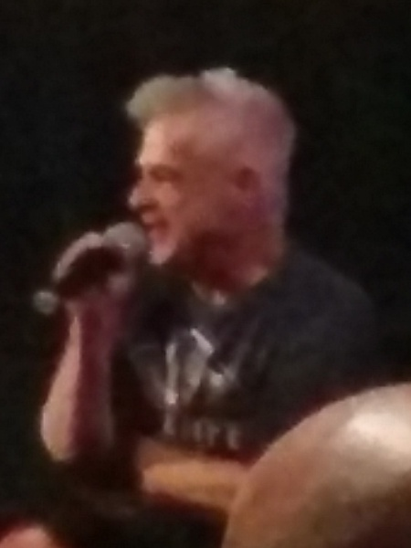 Marc Huestis at the "Flashback 1977: Frameline's Founding Year" program at the Roxie Theatre in San Francisco, California, United States